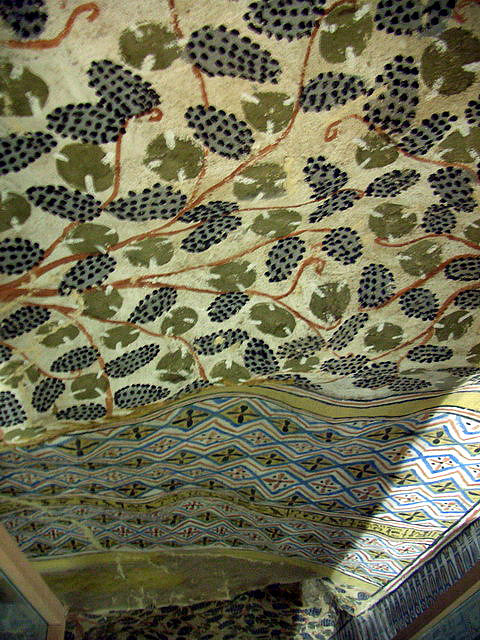 Tumb of Senefer in Luxor